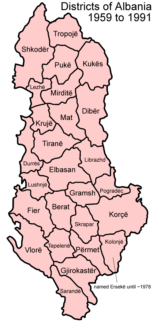 Map of the districts (rrethe) of Albania as they were between 1959 and 1991. From 1958 to 1959, the country was reorganized from ten prefectures to 26 districts. In 1991, ten more districts were created, split from existing ones, giving us the district map we have today. Made by User:Golbez. Please do not consider these borders authoritative, as source material from that period is a little difficult to find online. If there are any errors, please contact me.